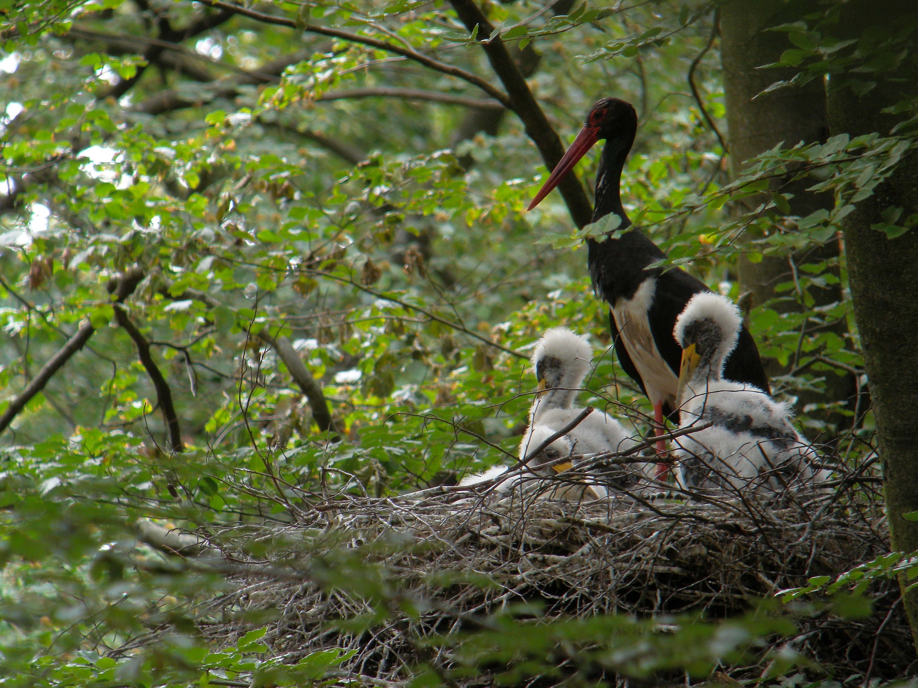 Swarowski 80 HD 30 X, Coolpix P6000 (Adapter DCB)